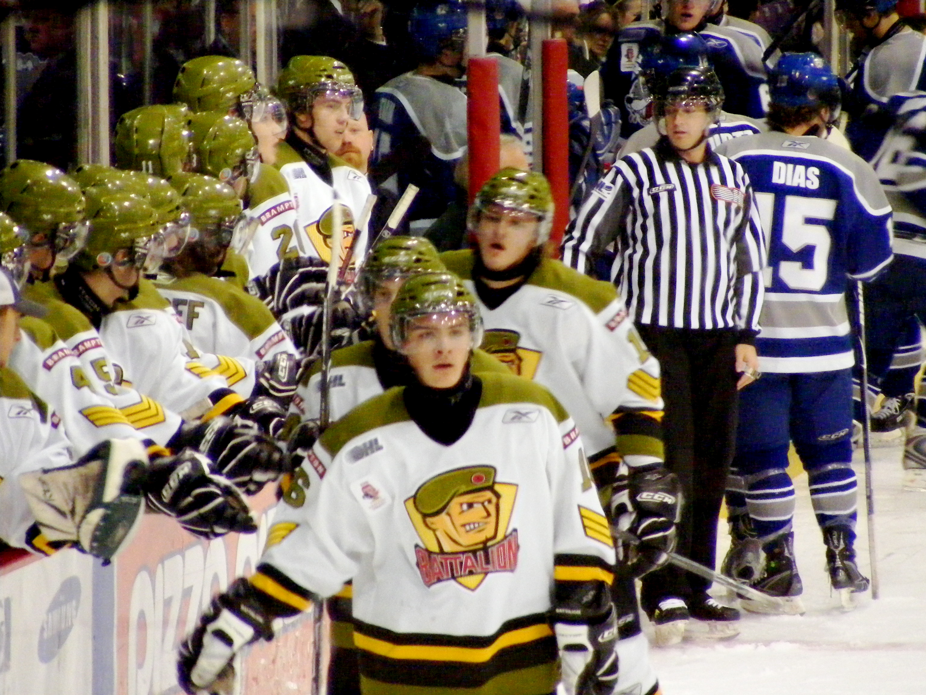 Players of the Brampton Battalion, Ontario Hockey League